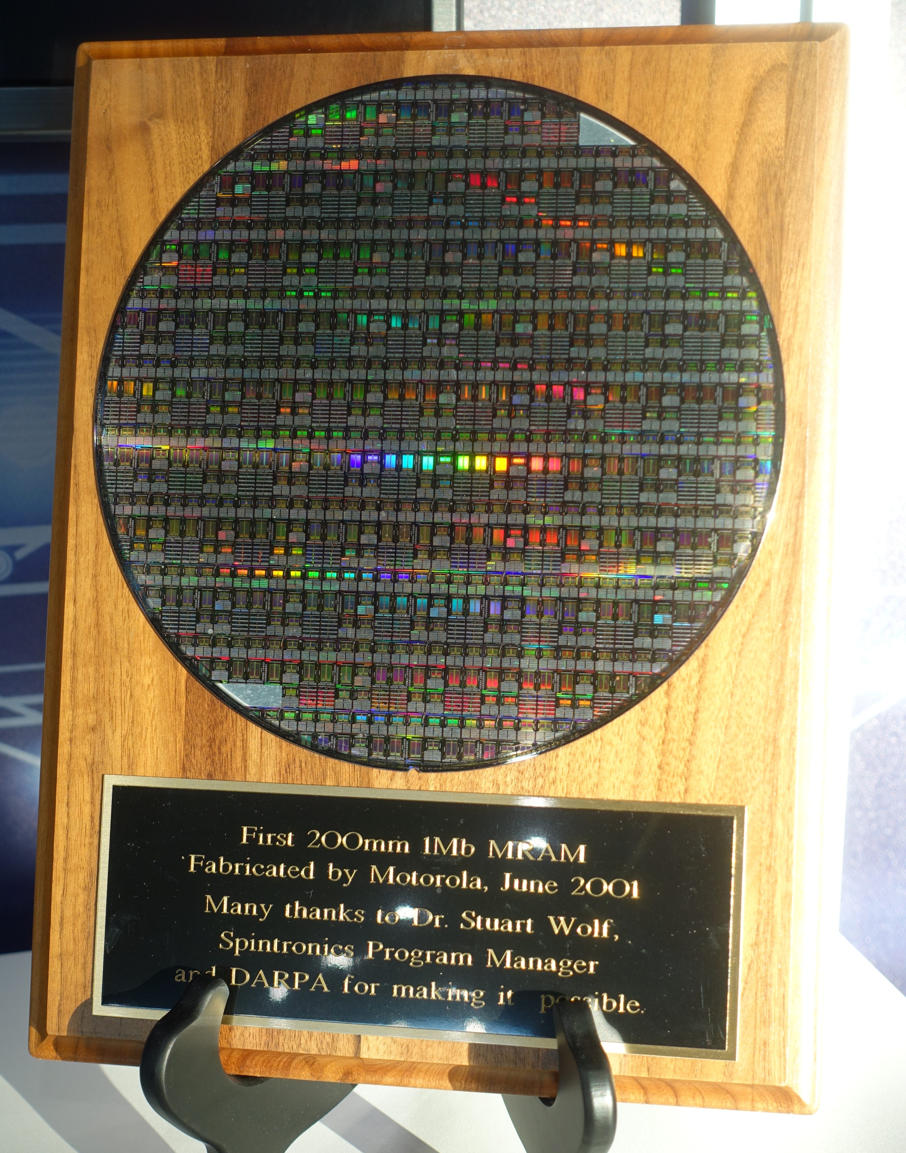 Exhibit at the D60 Symposium - Defense Advanced Research Projects Agency, USA. Photography was permitted in the exhibit hall without restriction.